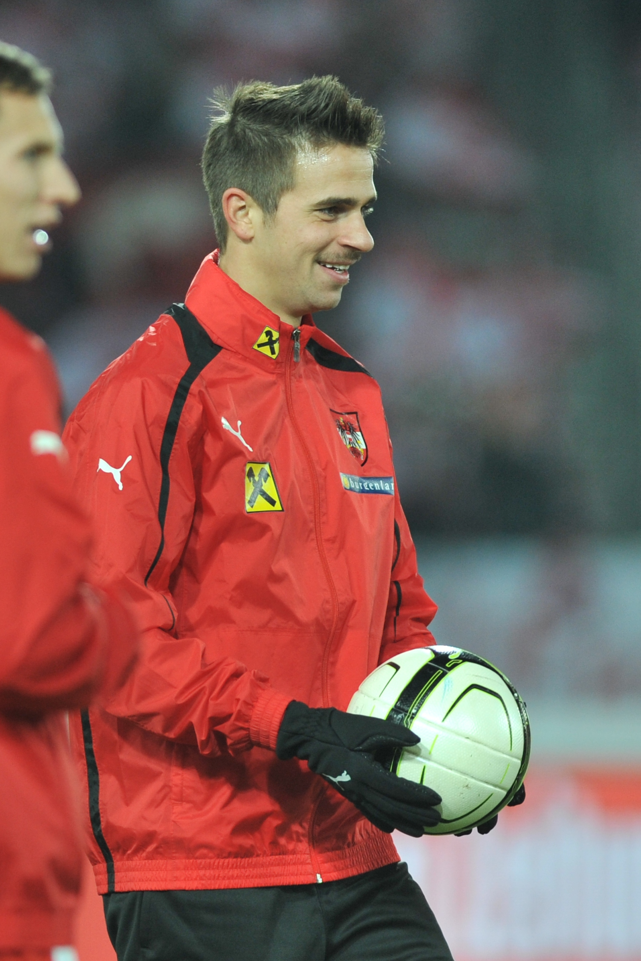 ÖFB freundschaftliches Länderspiel - Österreich vs Elfenbeinküste am 14. November 2012 The making of this work was supported by Wikimedia Austria. For other files made with the support of Wikimedia Austria, please see the category Supported by Wikimedia Österreich. 11: Martin Harnik